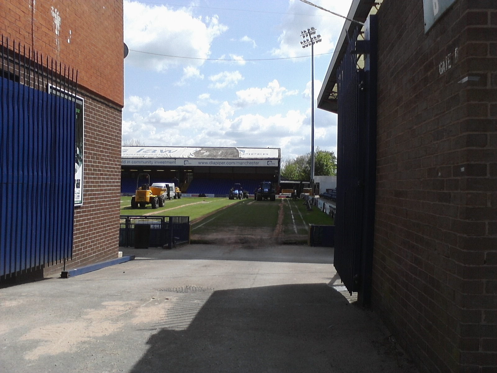 Maintenance work at Edgeley Park, 17 May 2010